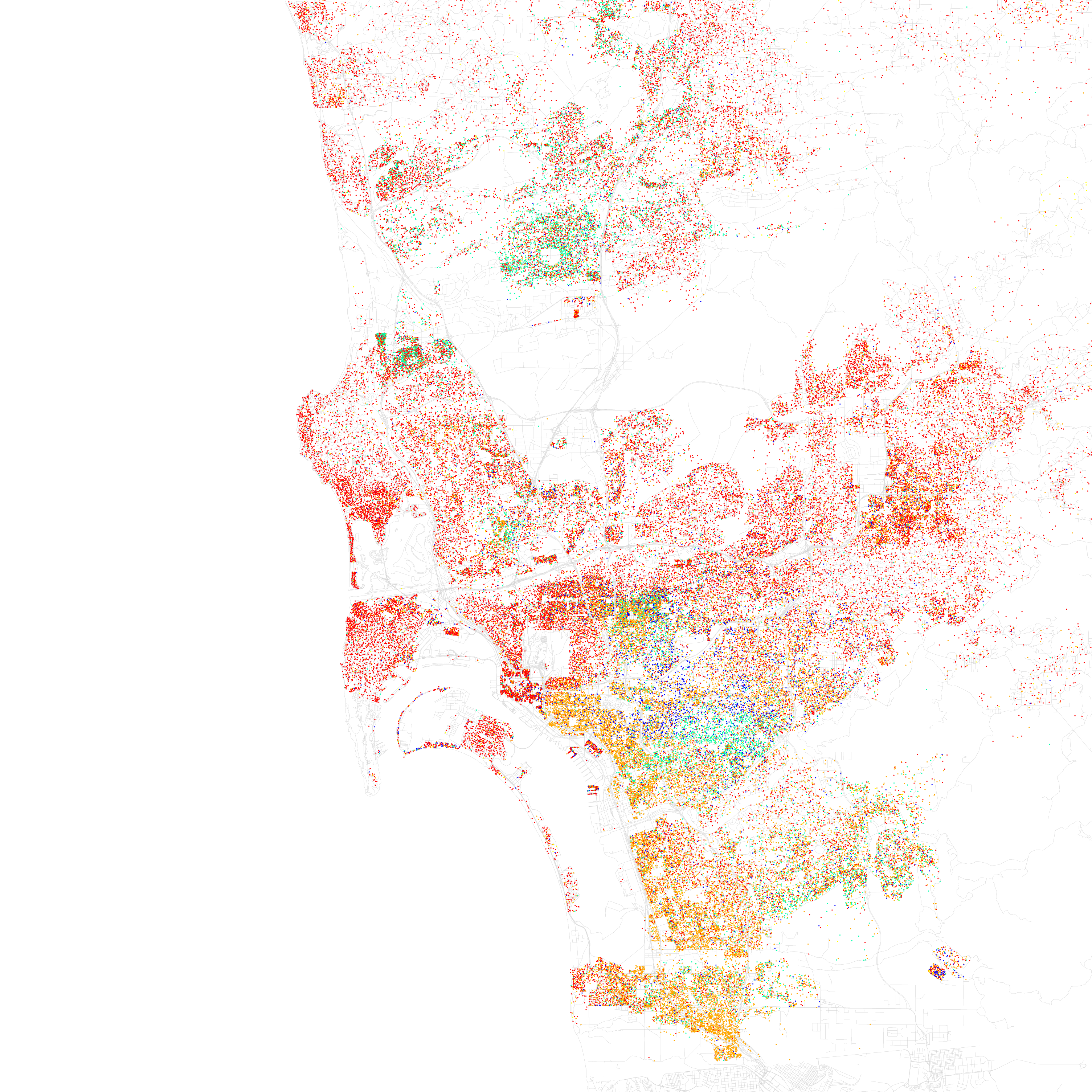 Maps of racial and ethnic divisions in US cities, inspired by Bill Rankin's map of Chicago, updated for Census 2010. Red is White, Blue is Black, Green is Asian, Orange is Hispanic, Yellow is Other, and each dot is 25 residents. Data from Census 2010. Base map © OpenStreetMap, CC-BY-SA